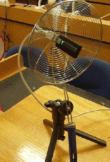 Example of a "WokFi" antenna, a crude homemade parabolic antenna used for connecting a personal computer to a wireless network. This one consists of a barbecue dish cover with a USB wireless dongle at the focus, connected to the computer by a cable. WokFi antennas allow connection to wireless networks at much greater ranges than the omnidirectional antennas typically used in wireless devices. The dish must be pointed at the network access point antenna.